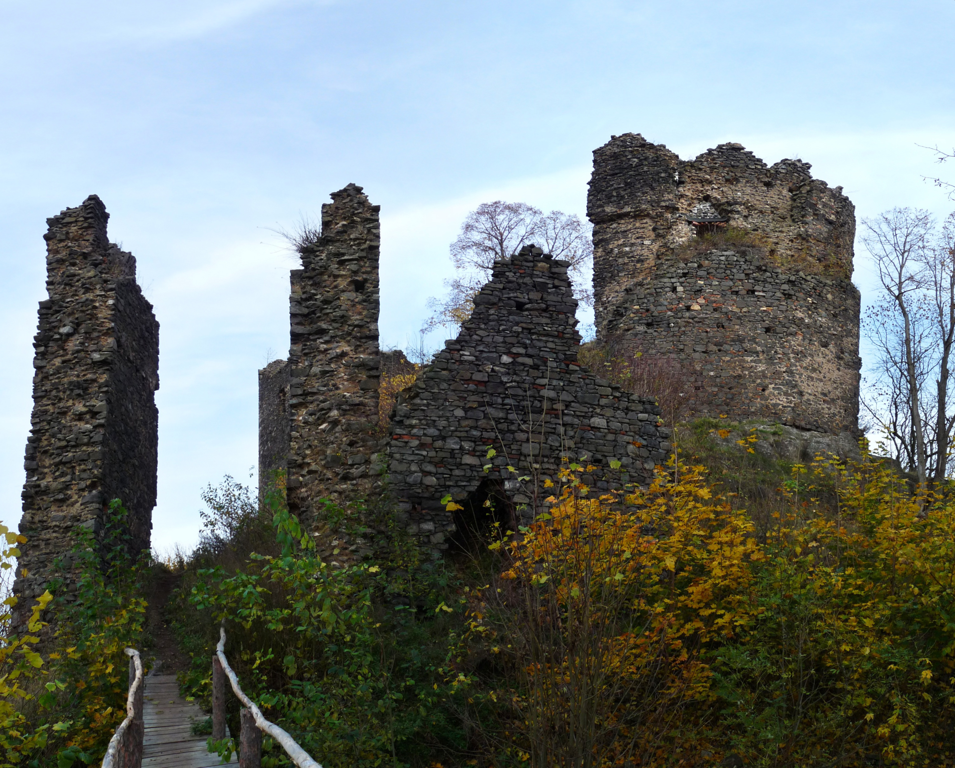 Lestkov also known as Egerberg, a ruined medieval castle near Klášterec nad Ohří, Chomutov District, Czech Republic